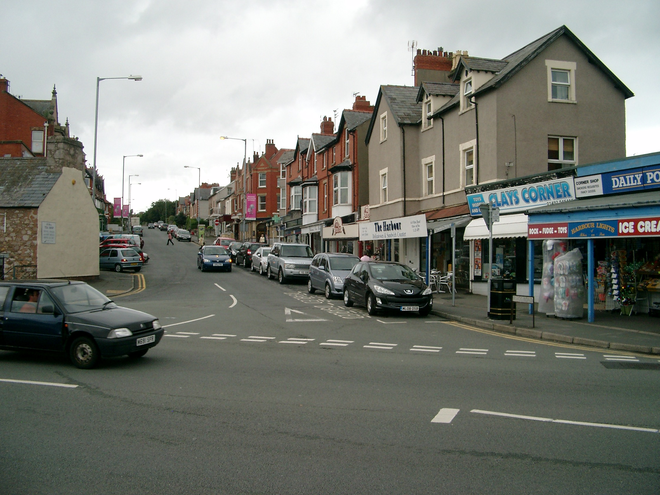 Llandrillo-yn-Rhos/Rhos-on-sea, North Wales